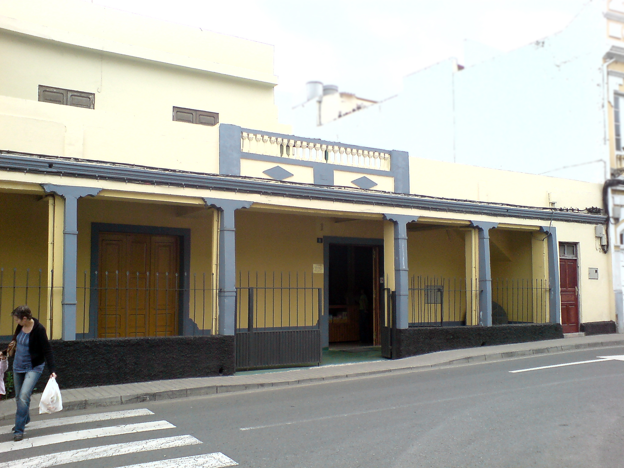 Fire mill (powered with a diesel engine) of Vega de San Mateo, Gran Canaria (Canary Islands)